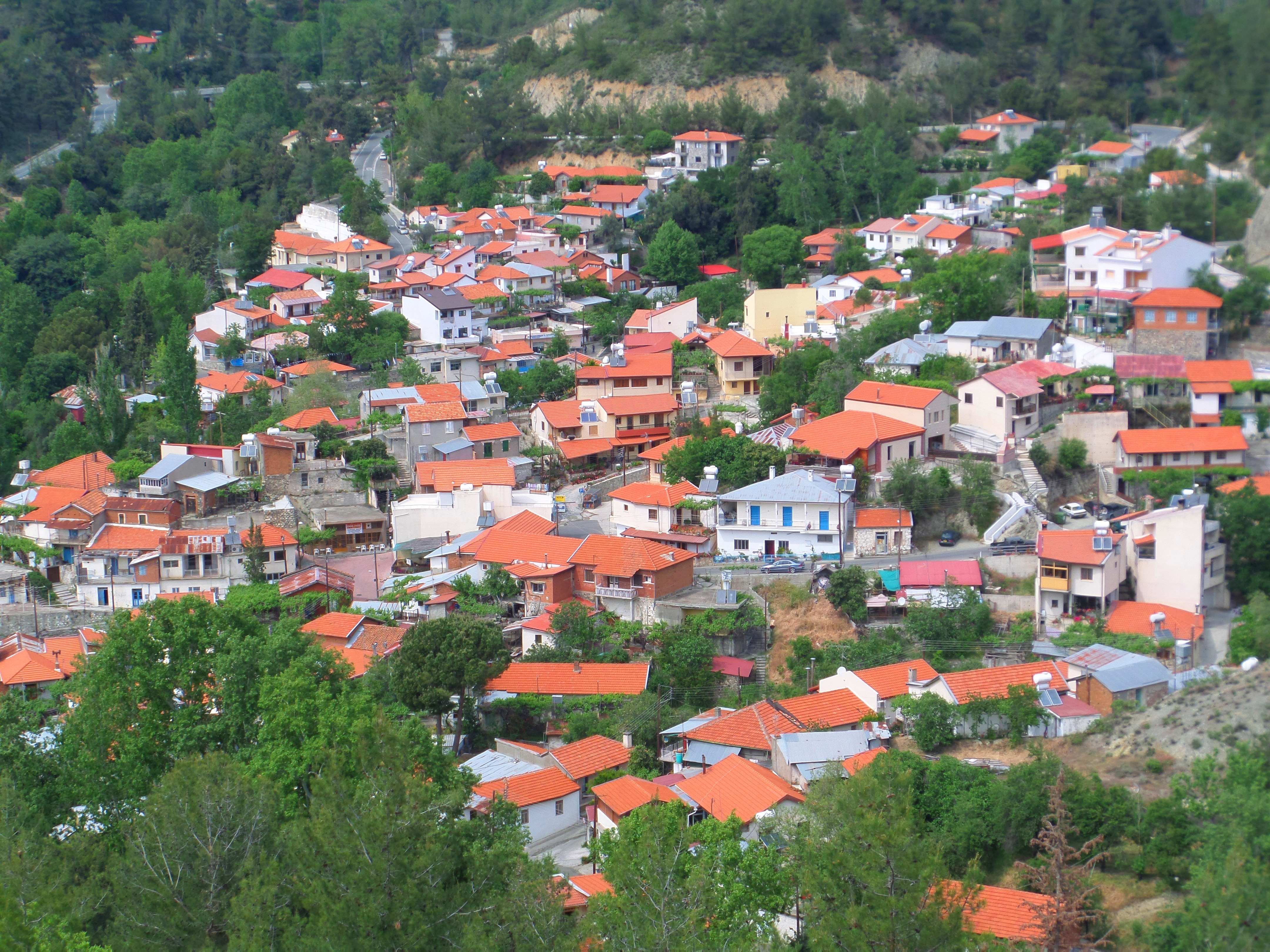 View of Foini.